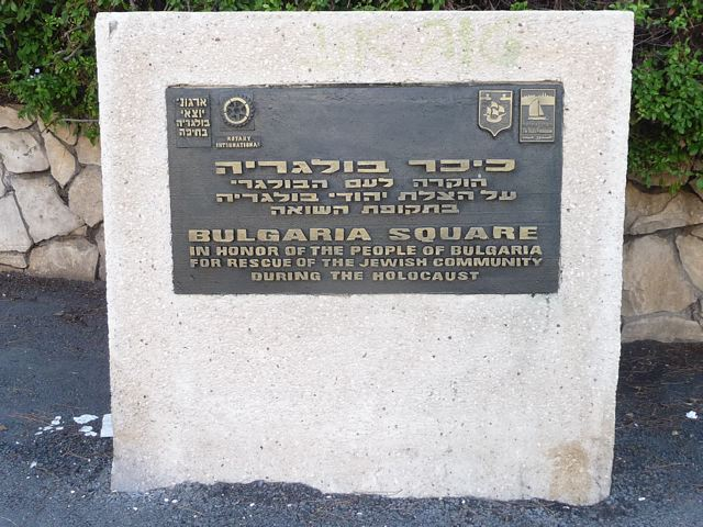 Bulgaria Square located in Haifa, israel, In honor of the people of Bulgaria for rescuing the Jewish communnty during WW2.